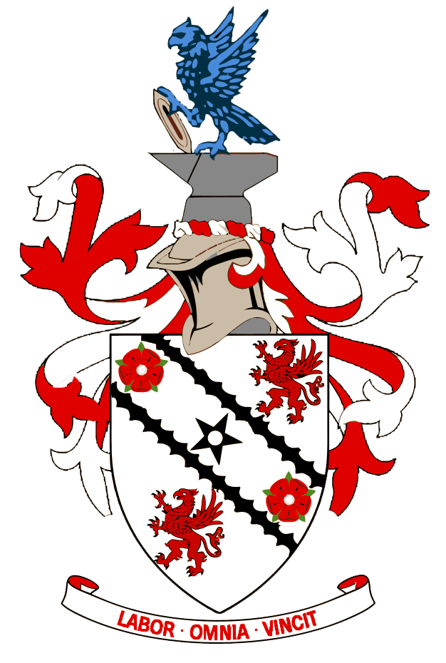 Coat of arms of the former Chadderton Urban District Council. The armoural description is as follows: ARMS: Argent between two Bendlets engrailed a Mullet Sable pierced of the Field between two Roses Gules barbed and seeded proper all between as many Griffins segreant also Gules armed and langued Azure. CREST: On a Wreath Argent and Gules Upon an Anvil proper an Eagle wings elevated and addorsed Azure resting the dexter claw on a Shuttle Or. Motto: 'LABOR OMNIA VINCIT' - Labour overcomes all things. Granted by the College of Arms on 9 September 1955